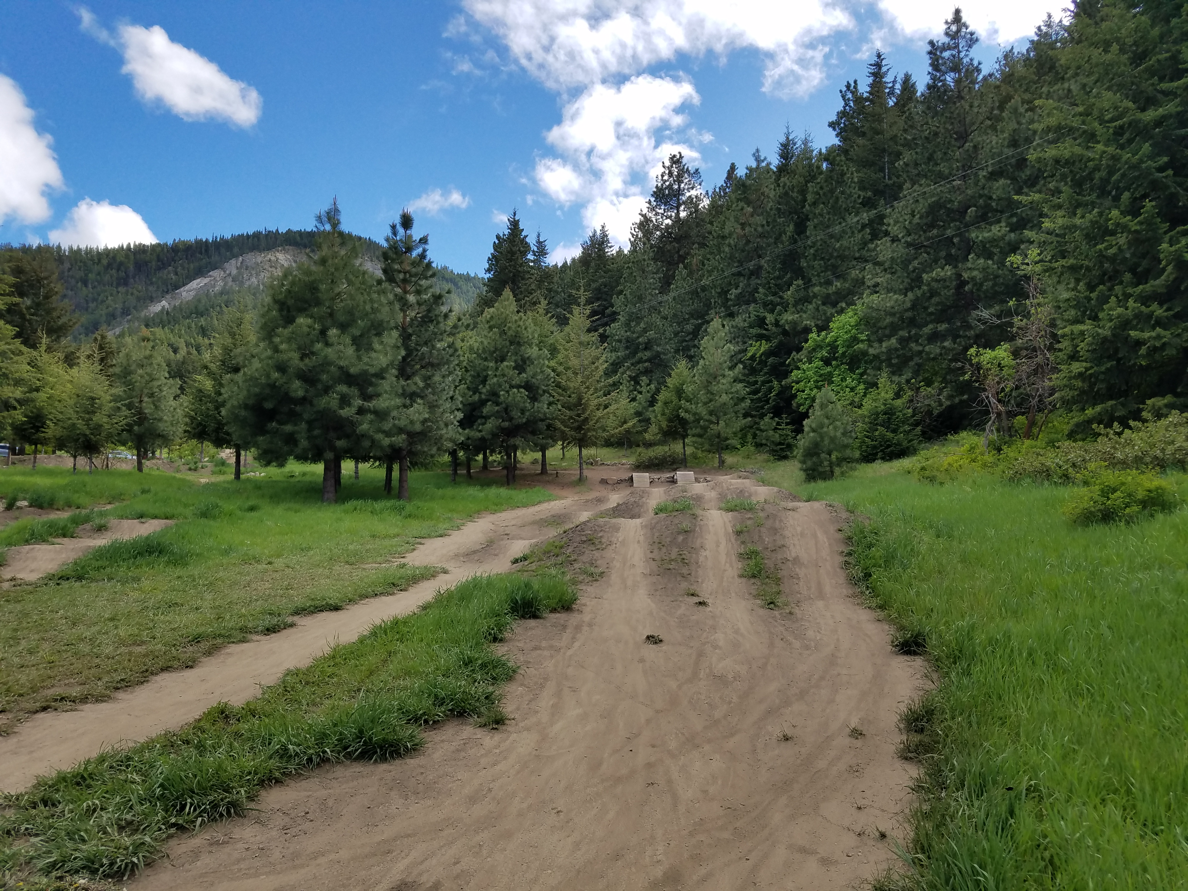 Mountain bike course at Squilchuck State Park near Wenatchee, Washington, USA.